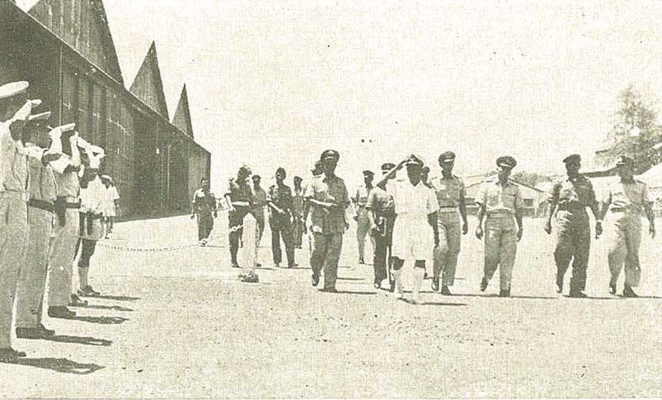 Burmese Navy visit to Indonesia